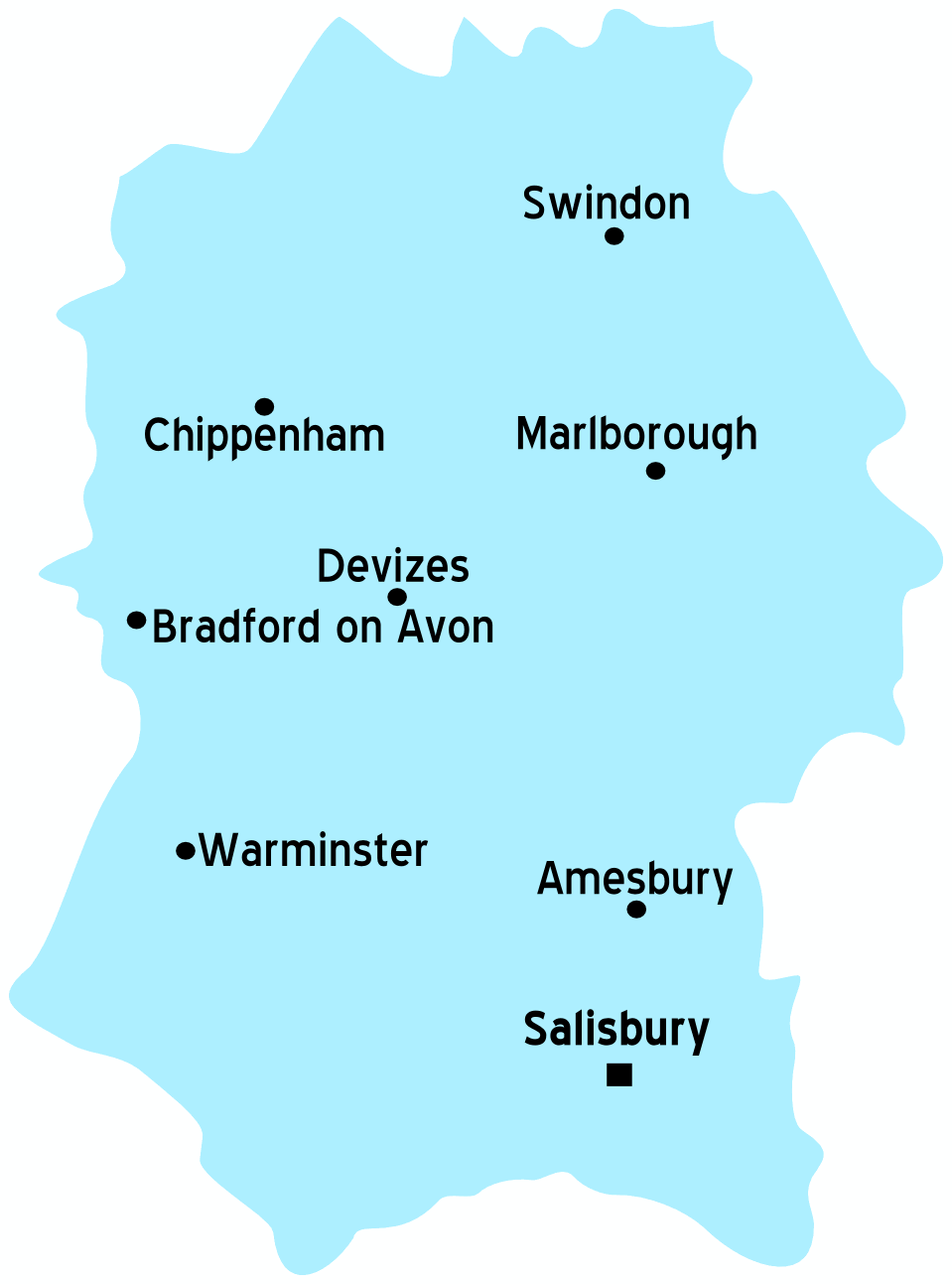 Map of Wiltshire Source: :Image:UK map.svg map: England Map of: England